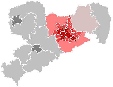 Greater Dresden, density of population and affiliation is highlighted